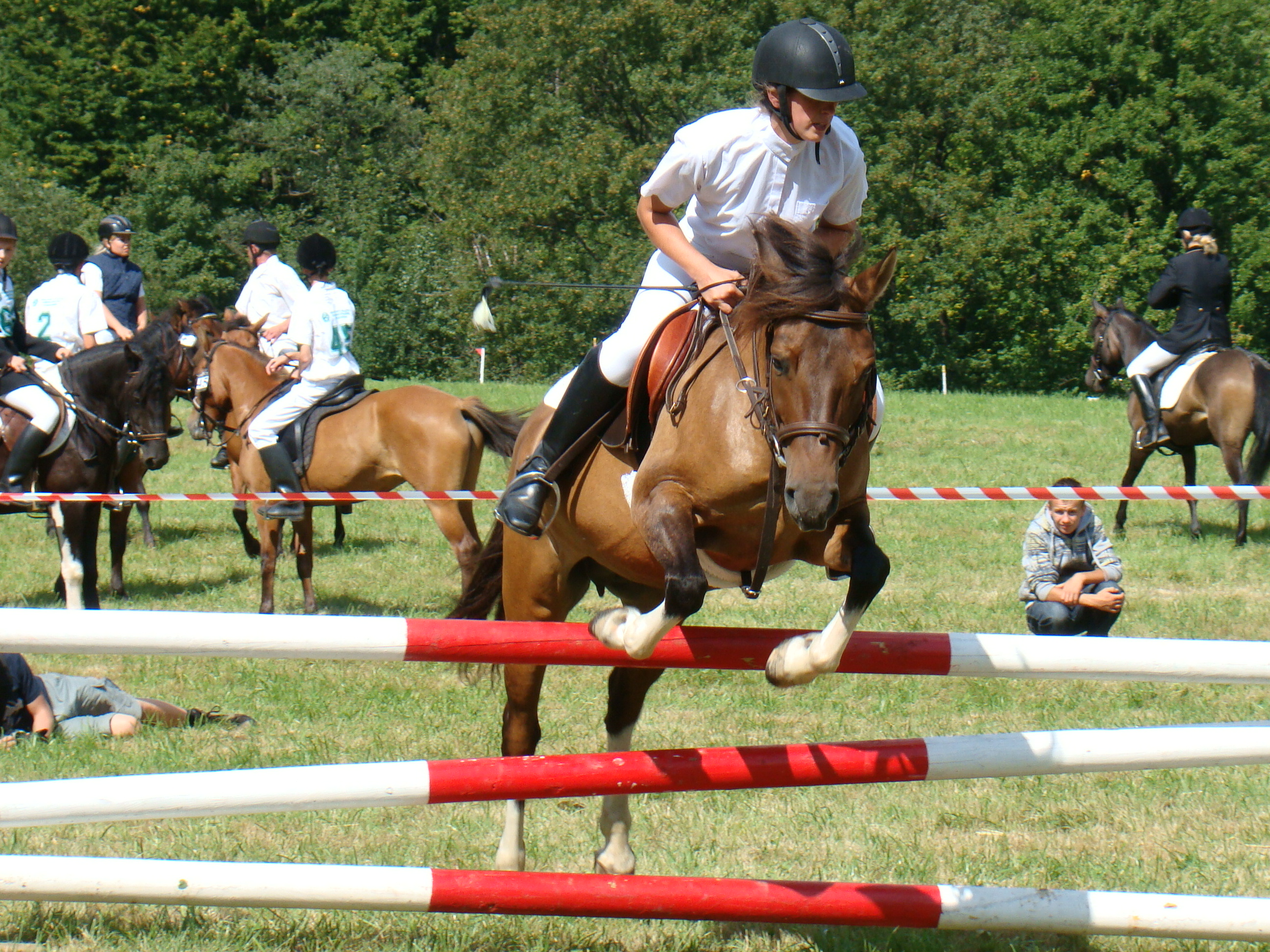 Regional Pony Rally in Rudawka Rymanowska 2009